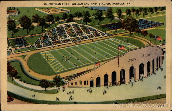 Postcard of Old Dominion University's Foreman Field, constructed during Great Depression.